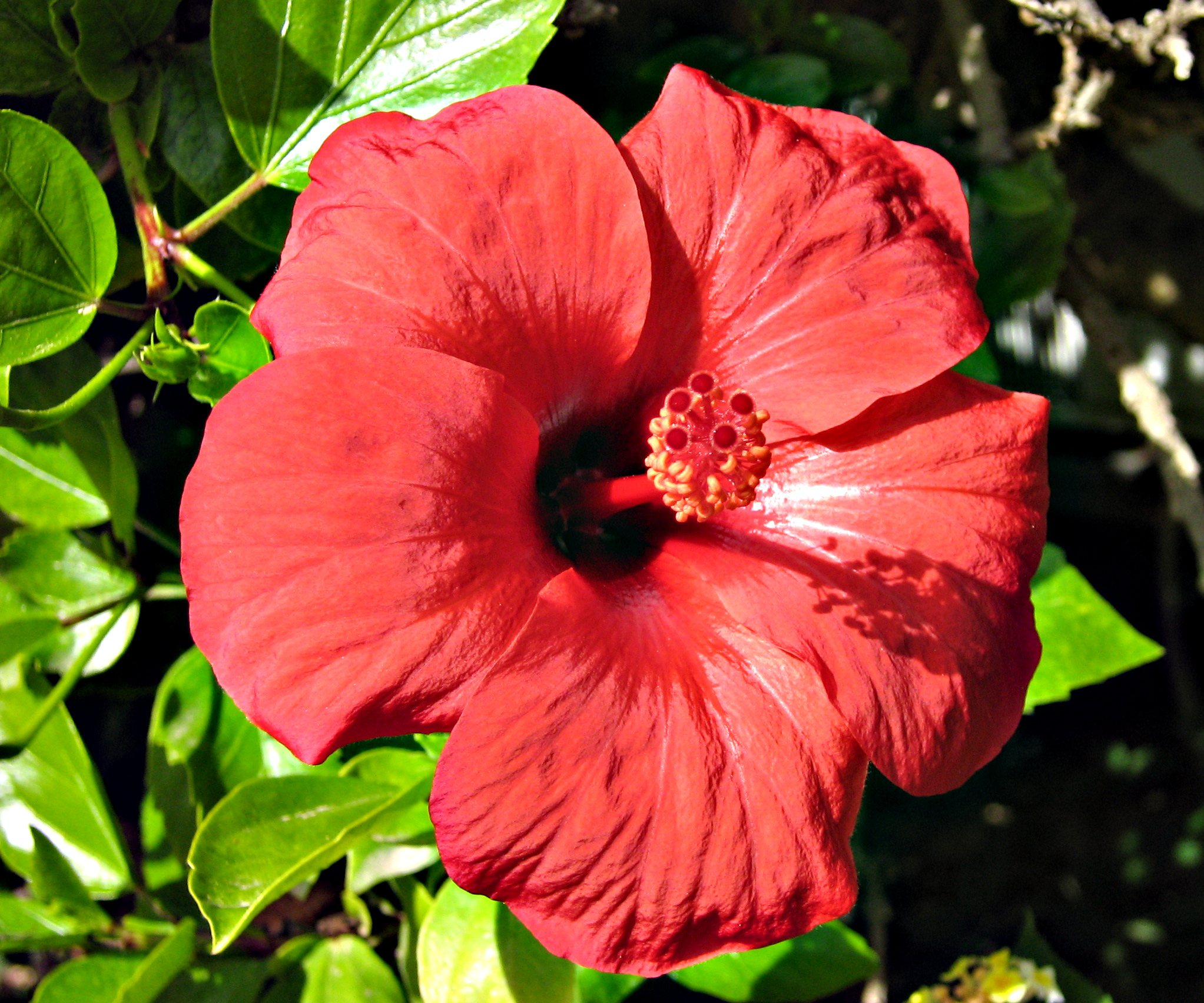 Hibiscus flower. An introduced plant in Libya.